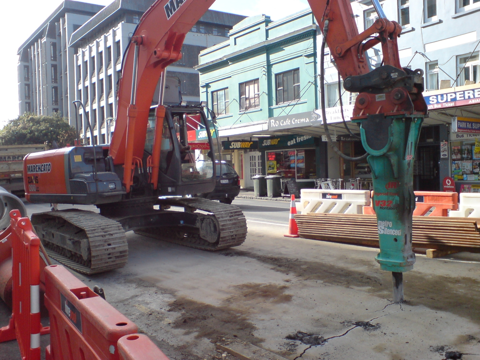 An excavator-mounted hydraulic jackhammer breaking the road surface in Grafton, Auckland, New Zealand, in preparation for a new sewage pipe to go into Park Road, as part of the works around the Central Connector Busway.